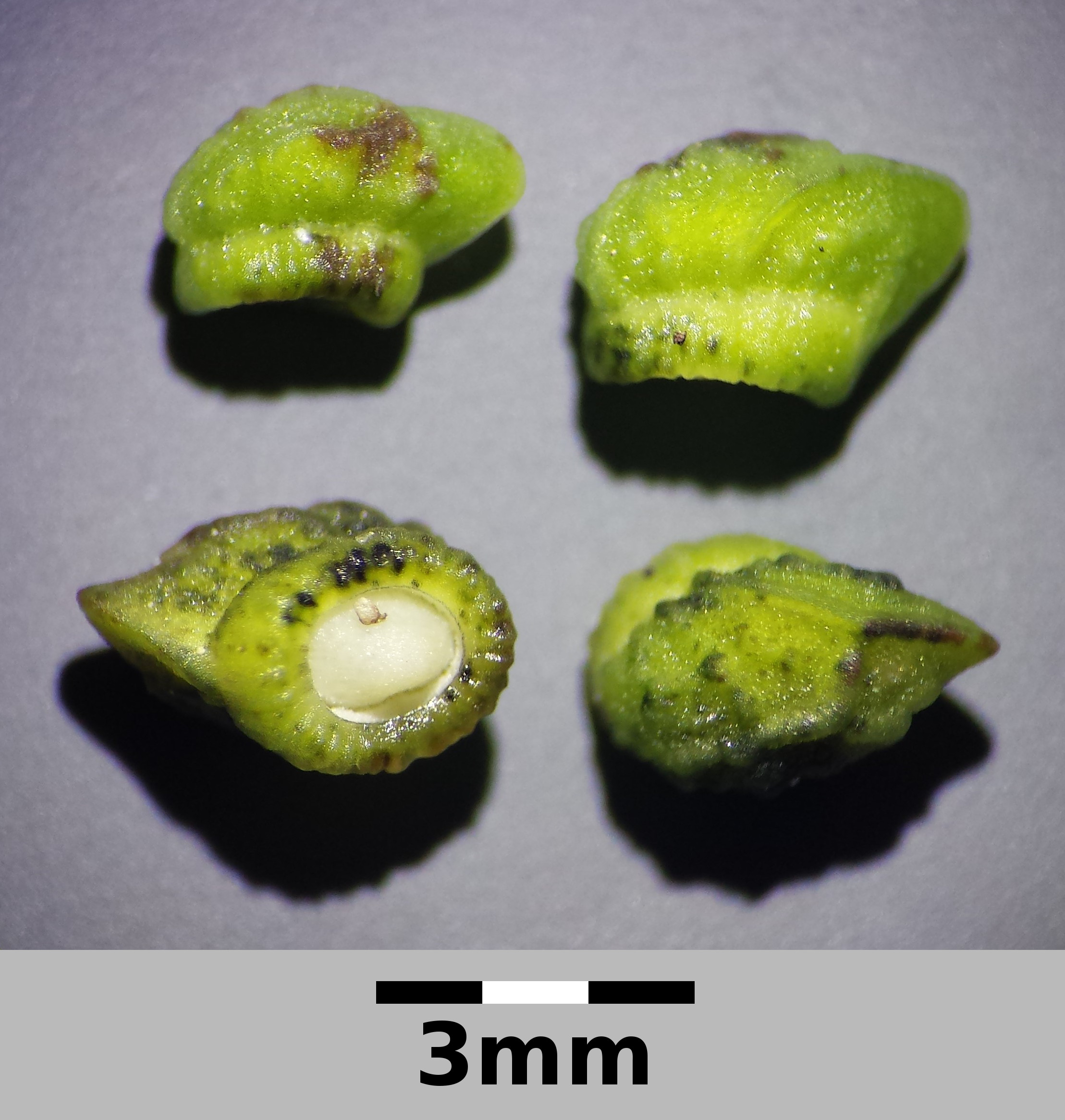 Fruits; 2x side view, bottom view and top view Taxon: Anchusa arvensis (sensu Fischer et al. EfÖLS 2008 ISBN 978-3-85474-187-9) Location: Haulesbergen, Ulrichskirchen-Schleinbach, district Mistelbach, Lower Austria - ca. 200 m a.s.l. Habitat: dry grassland over Loess